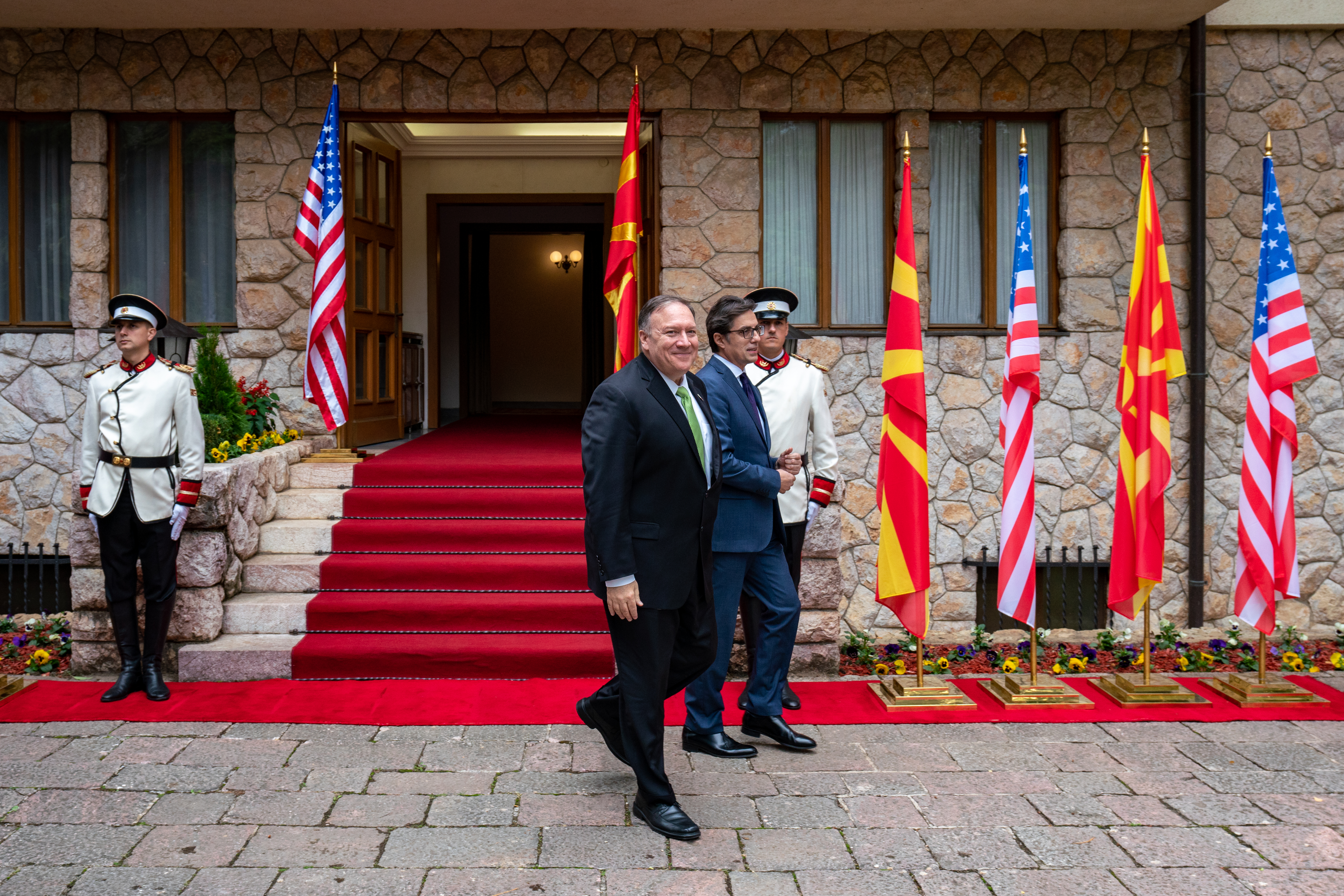 U.S. Secretary of State Michael R. Pompeo meets with North Macedonia President Stevo Pendarovski in Lake Ohrid, North Macedonia, on October 4, 2019. [State Department photo by Ron Przysucha/ Public Domain]